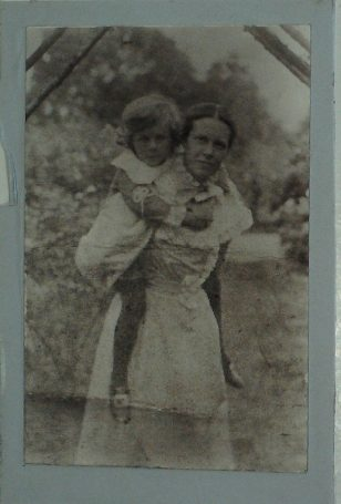 Julia and Aldous Huxley in 1898 copyright claim by school